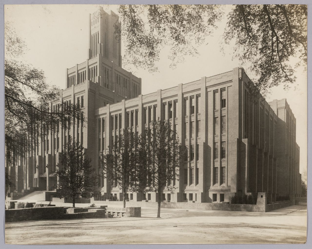 Administratiegebouw Nederlandse Spoorwegen, Utrecht, 1921. Architect: G.W. van Heukelom. Fotograaf: onbekend. Collectie NAi / TENT_o141 URL van deze afbeelding: Meer foto's uit deze collectie kunt u bekijken in de Collectiedatabase van het NAi. Niet van alle gebouwen en interieurs zijn alle gegevens bekend. Heeft u meer informatie of weet u het adres van een gebouw? Laat dan een reactie achter (als u ingelogd bent bij Flickr) of stuur een mailtje naar: Al deze foto's zijn gemaakt in de eerste helft van de twintigste eeuw. Wij zijn benieuwd hoe deze gebouwen er vandaag de dag uitzien. Heeft u recente foto's van deze gebouwen of locaties, voeg ze dan toe als commentaar. U kunt een eigen Flickr-foto toevoegen door de URL ervan tussen vierkante haken in het commentaarveld te plakken. Als uw foto's een Creative Commons licentie hebben, nemen we ze bovendien graag op in de NAi Collectiedatabase. Office Building of the Dutch Railway Company, Utrecht, 1921. Architect: G.W. van Heukelom. Photographer: unknown. NAI Collection / TENT_o141 Persistent URL: For more photographs from this collection, please visit the NAI Collection Database You can help us gain more knowledge on the content of our collection by adding a comment with information. If you do not wish to log in, you can write an e-mail to: All these pictures are taken in the first half of the twentieth century. We are curious to learn how these buildings look like today. If you have recently taken photographs of these buildings or locations, please add them to your comment. If you'd like to include a Flickr photo, simply copy and paste its URL between square brackets in the commentary-field. Photos with a Creative Commons licence may be used to illustrate the NAi Collection Database.